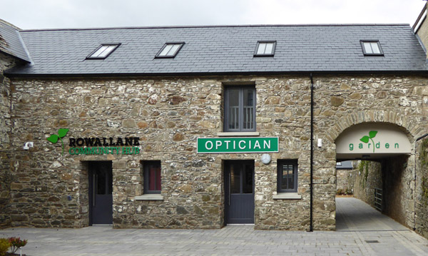 A photograph of Rowallane Community Hub